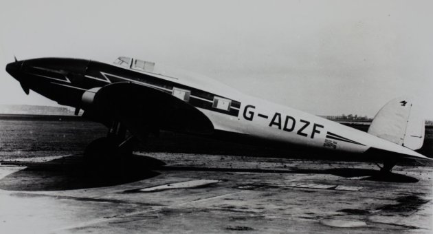 Heinkel He 70 PictionID:38236897 - Catalog:Array - Title:Array - Filename:15_002341.TIF - -------Image from the Charles Daniels Photo Collection.----Album: German Aircraft.-----------PLEASE TAG these images with any information you know about them so that we can permanently store this data with the original image file in our Digital Asset Management System.-----------------SOURCE INSTITUTION: San Diego Air and Space Museum Archive